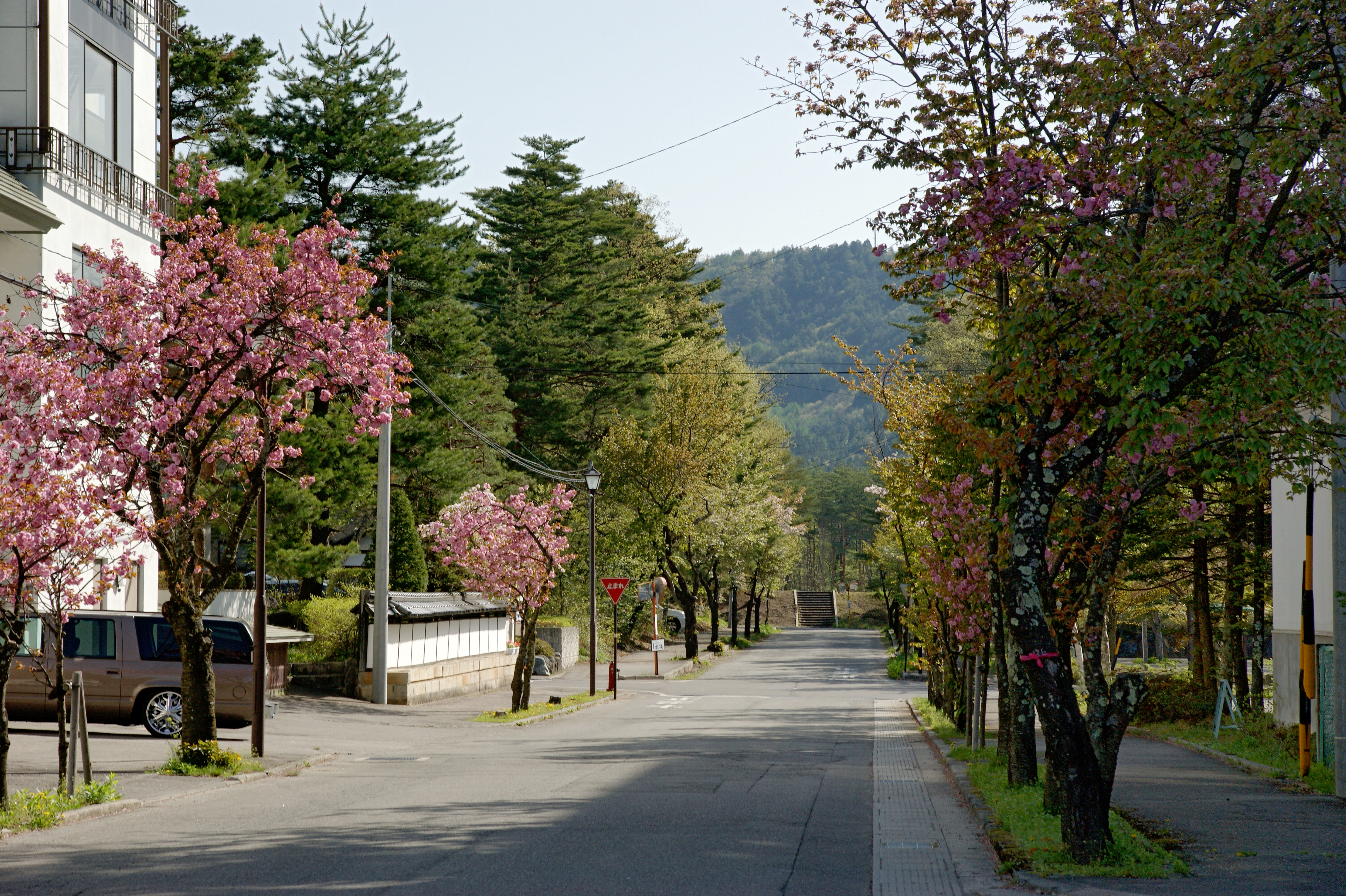 Omachi Onsenkyo in Omachi, Nagano prefecture, Japan